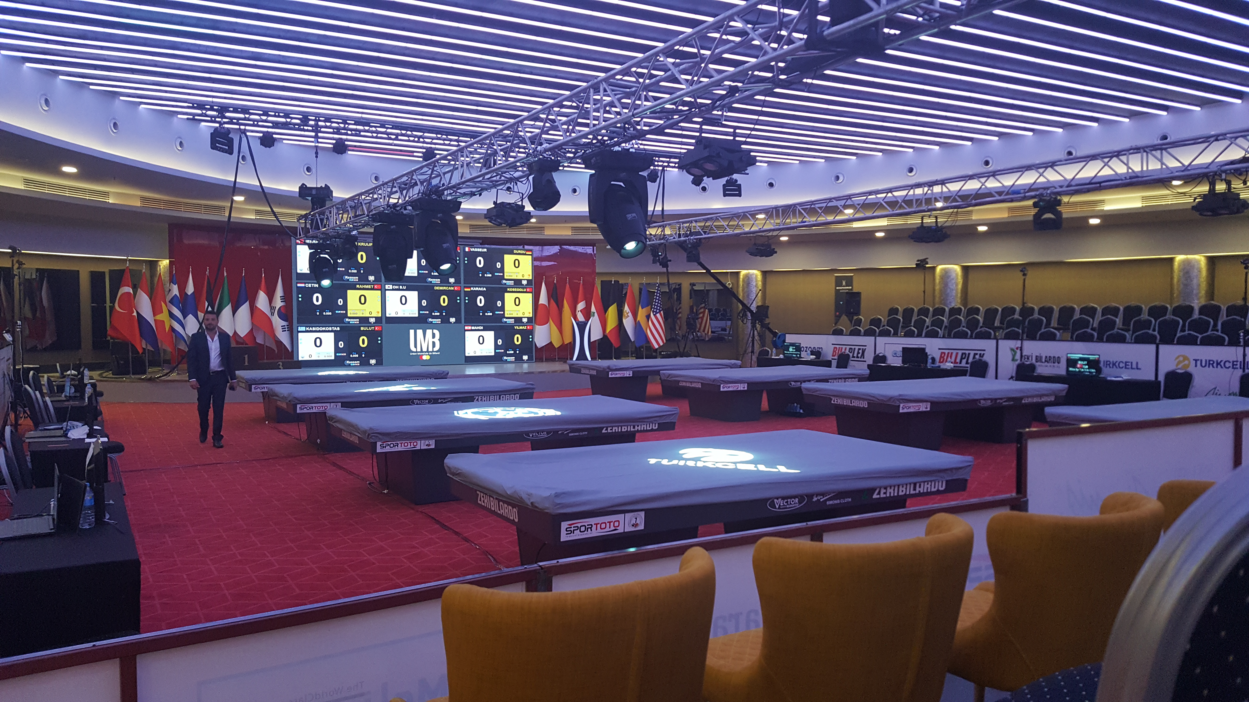 see file name (Bosphorus Sorgun Hotel)